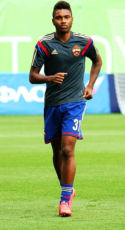 Vitinho